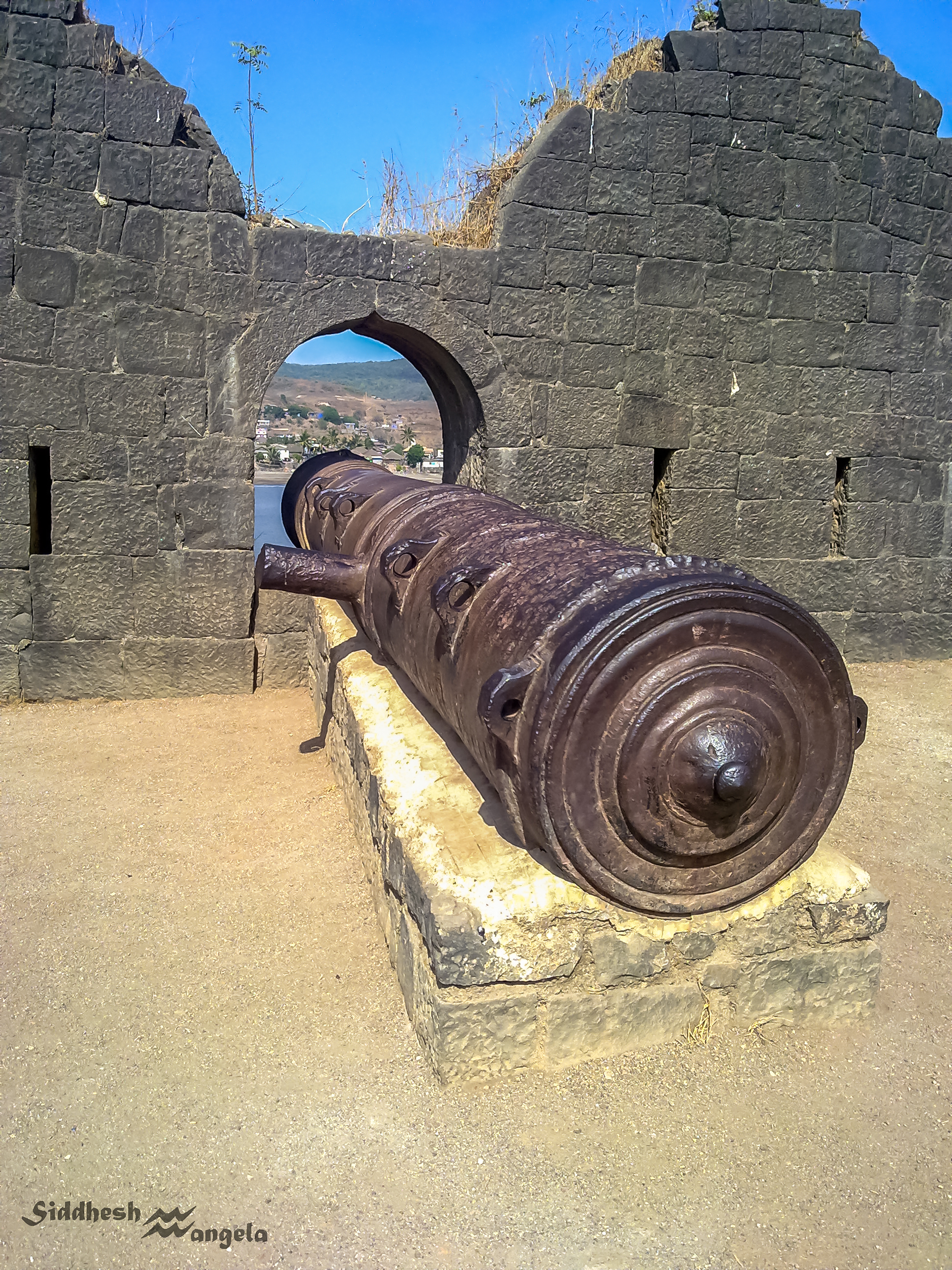 Largest Cannon At Janjira Fort, Weighting over 12 tons.It is also 3rd largest Cannon In India